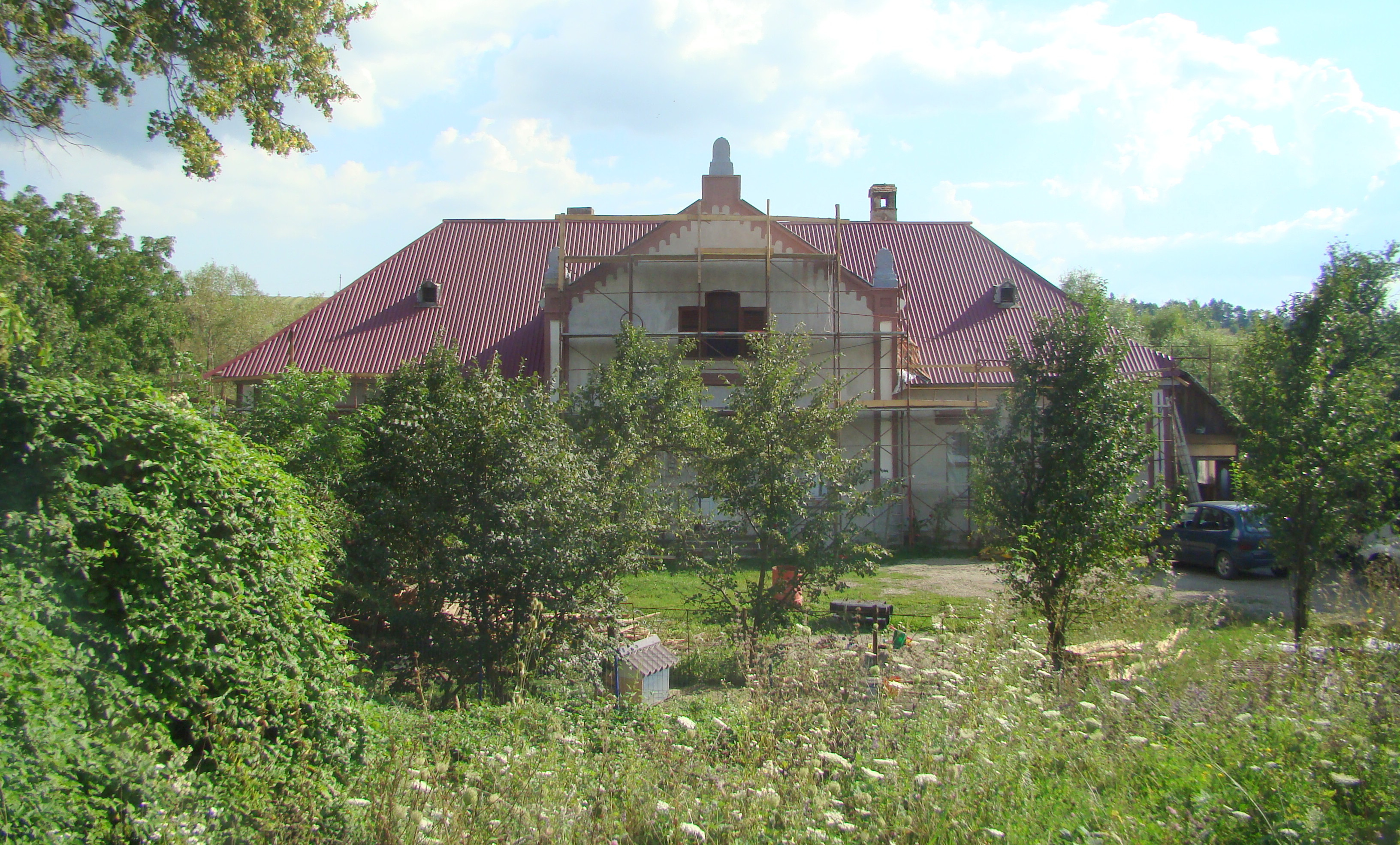 Former lutheran parish house in Ghinda, Bistrița-Năsăud county, Romania